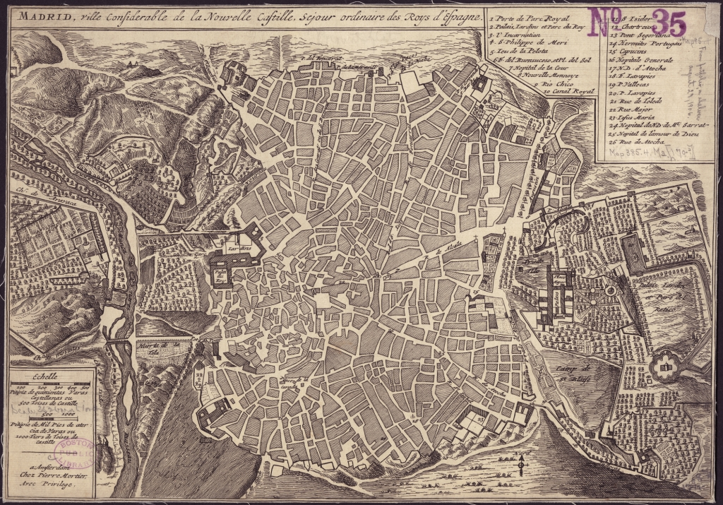 Zoom into this map at . Author: Fer, Nicolas de Publisher: Mortier, Pierre Date: 1702 Location: Madrid (Spain) Dimension: 23x32cm Scale: ca. 1:11,900 Call Number: G6564.M2 1702 .F47x